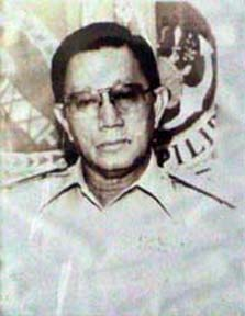 Gen. Romeo Espino is the longest serving Chief of Staff of the Armed Forces of the Philippines, from 1972 - 1981.